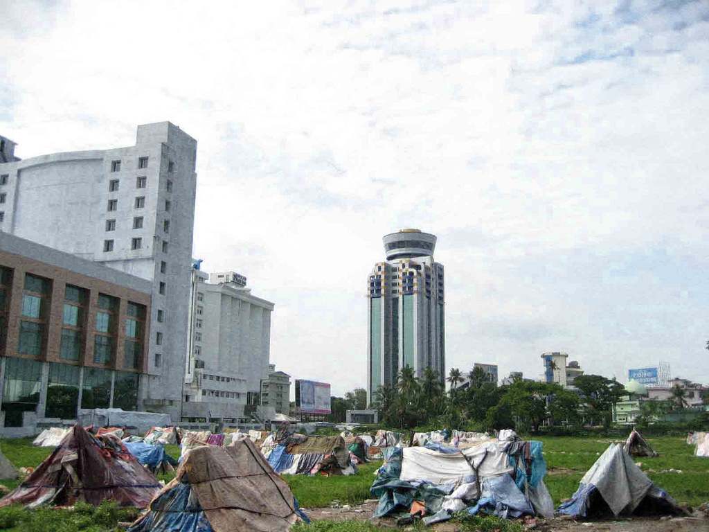 Cochin, India